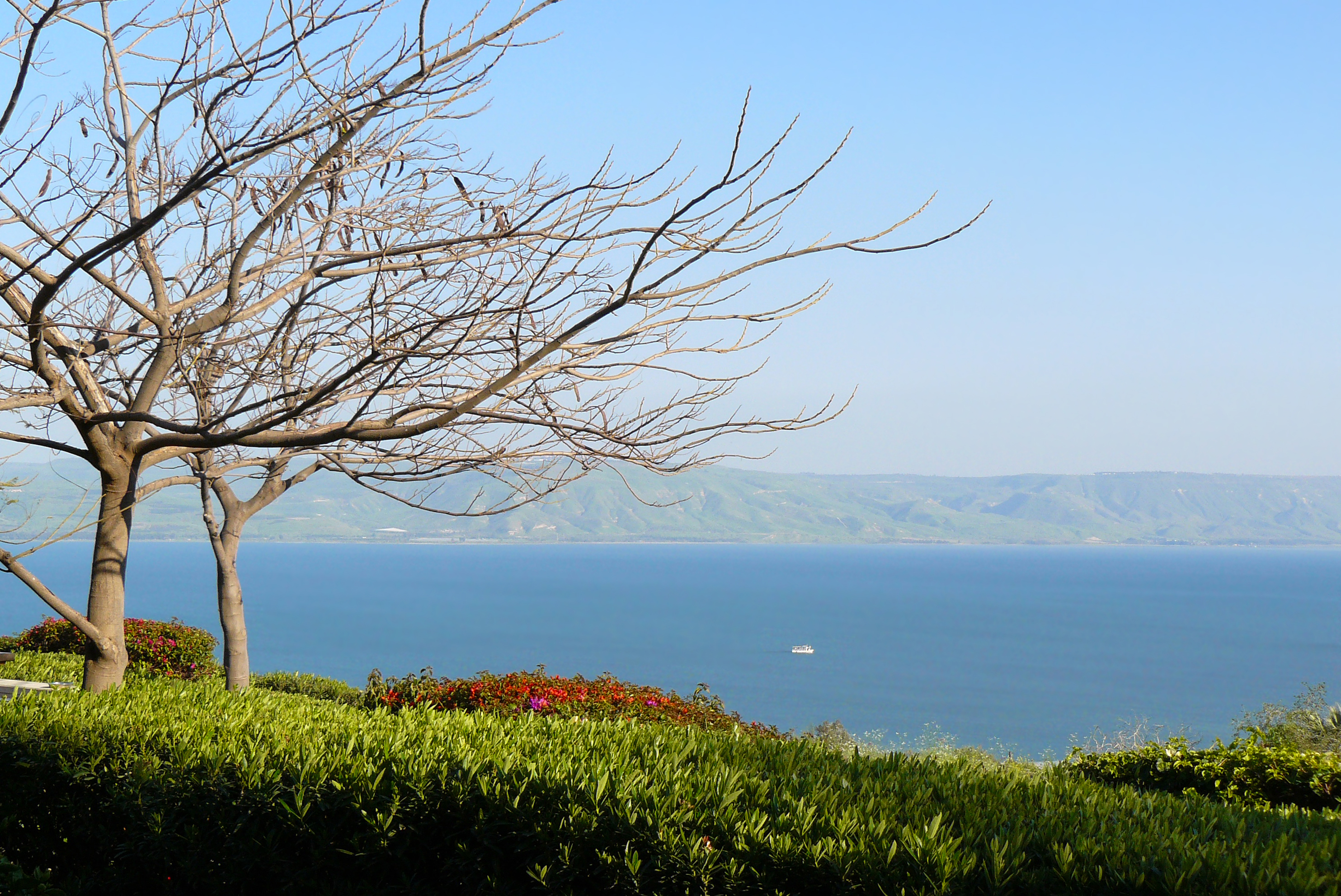 View of the Lake Kinneret in Israel.